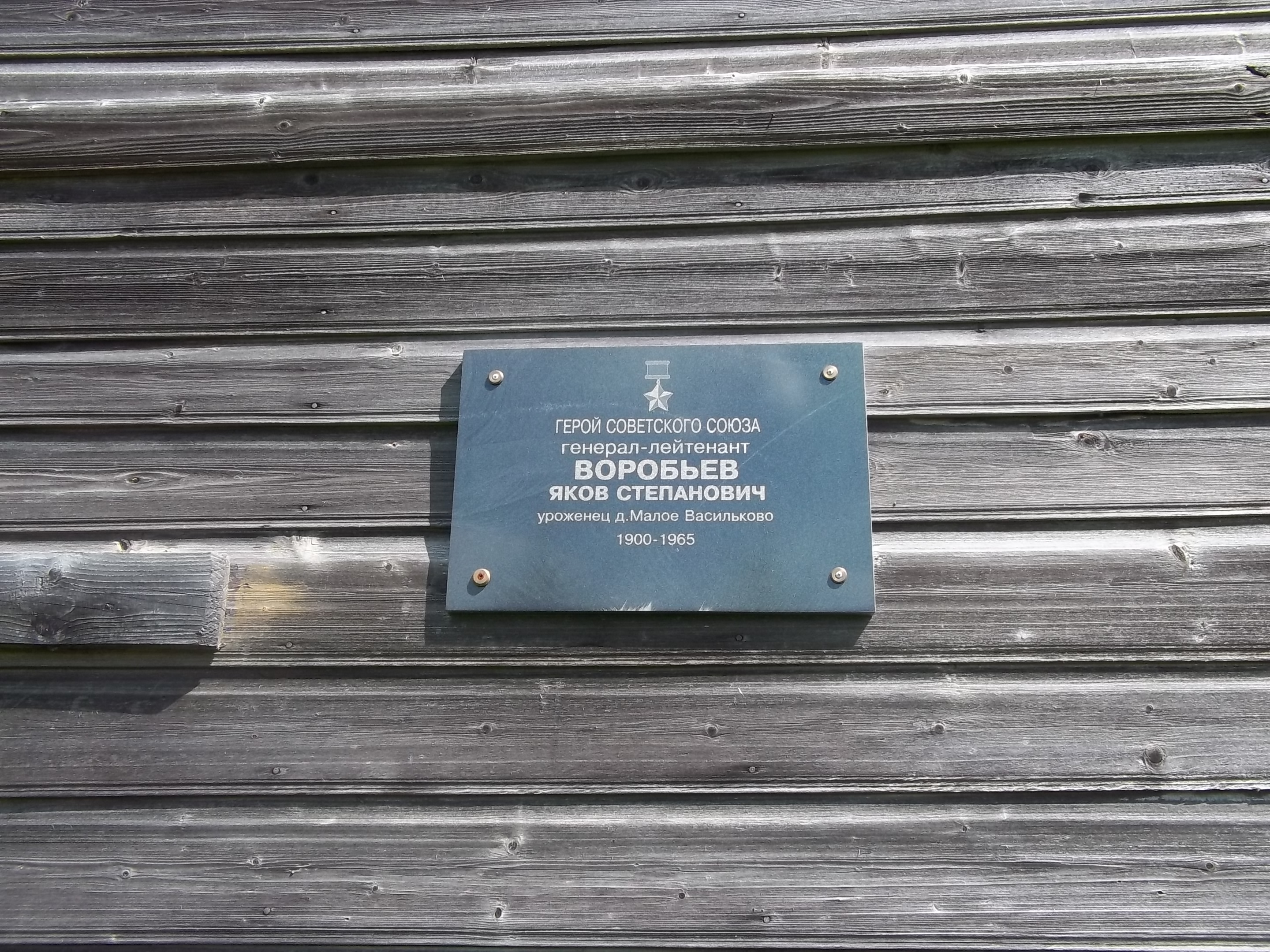 The commemorative plate of Bozyni village